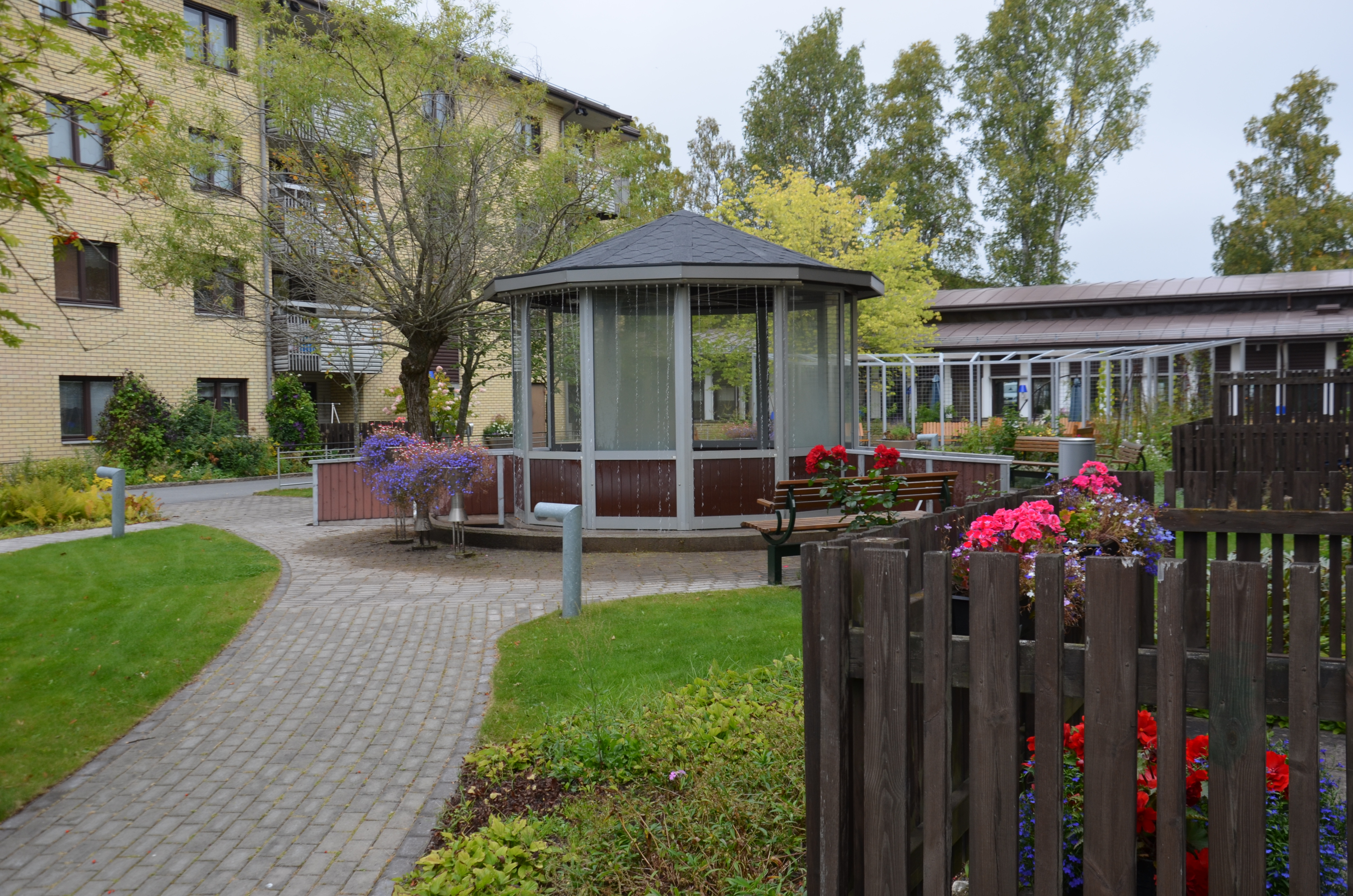 Sinnenas och Minnenas park i Hälleoprs